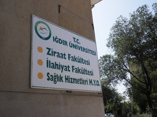 A view of Iğdır University